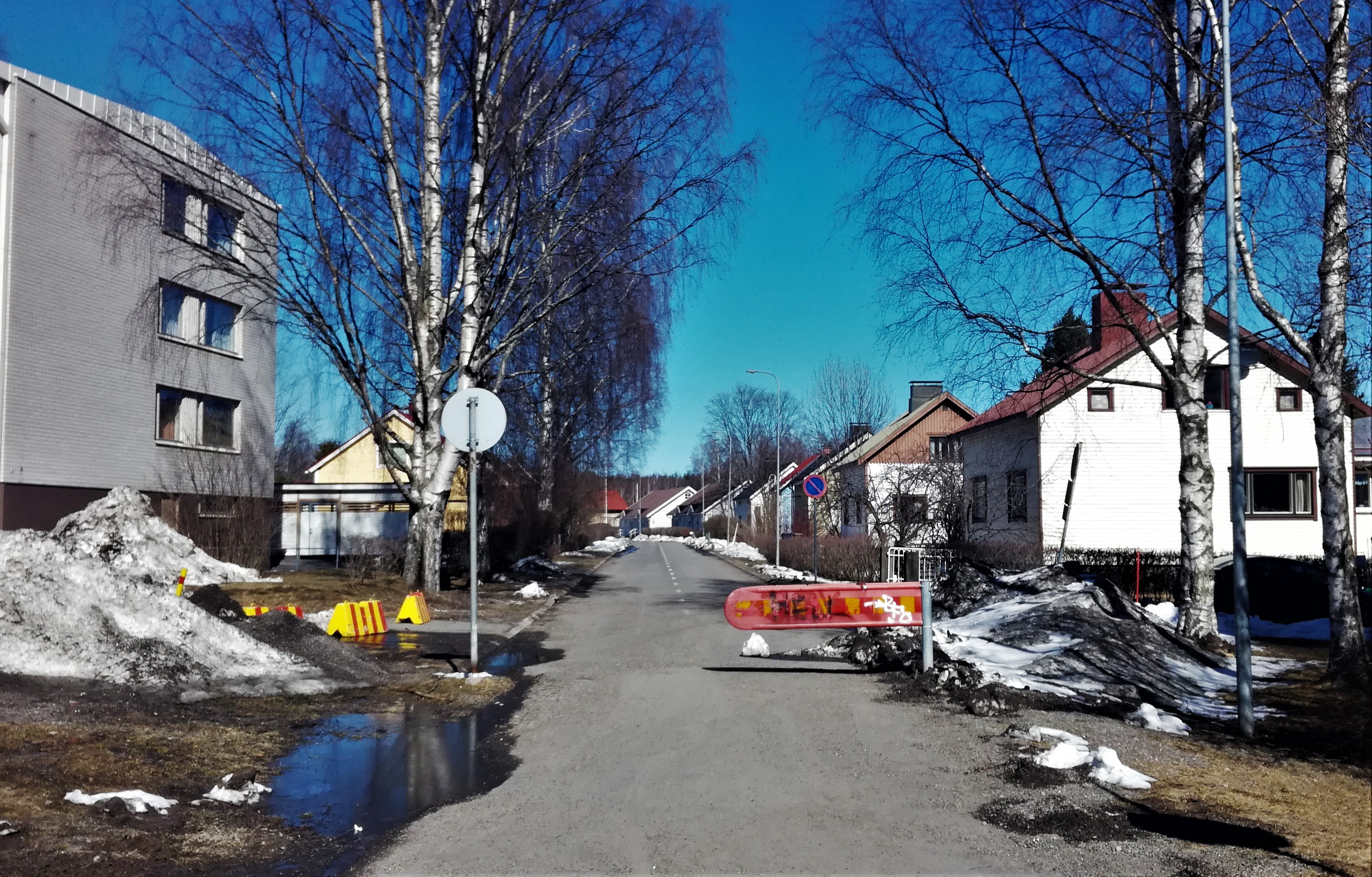 Tuohimutka neighborhood in the Halssila area in Jyväskylä.